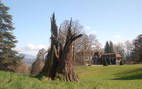 Chateau de Penthes